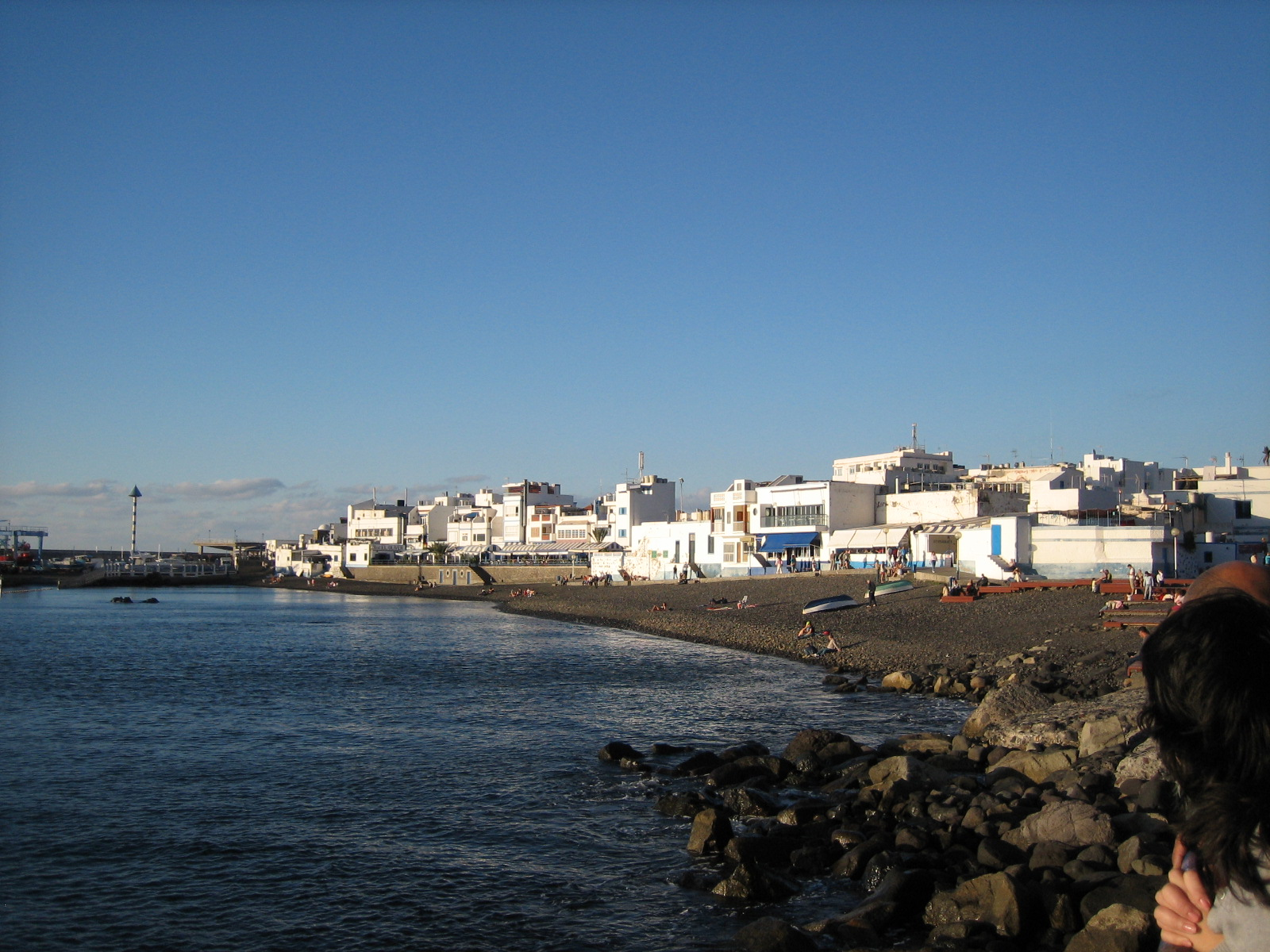 Sunset at Puerto de Las Nieves (Agaete, Gran Canaria.) Canary Islands, Spain.